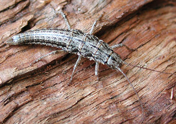 Timema dorotheae female, from Hualapai Mountains, Arizona, USA.